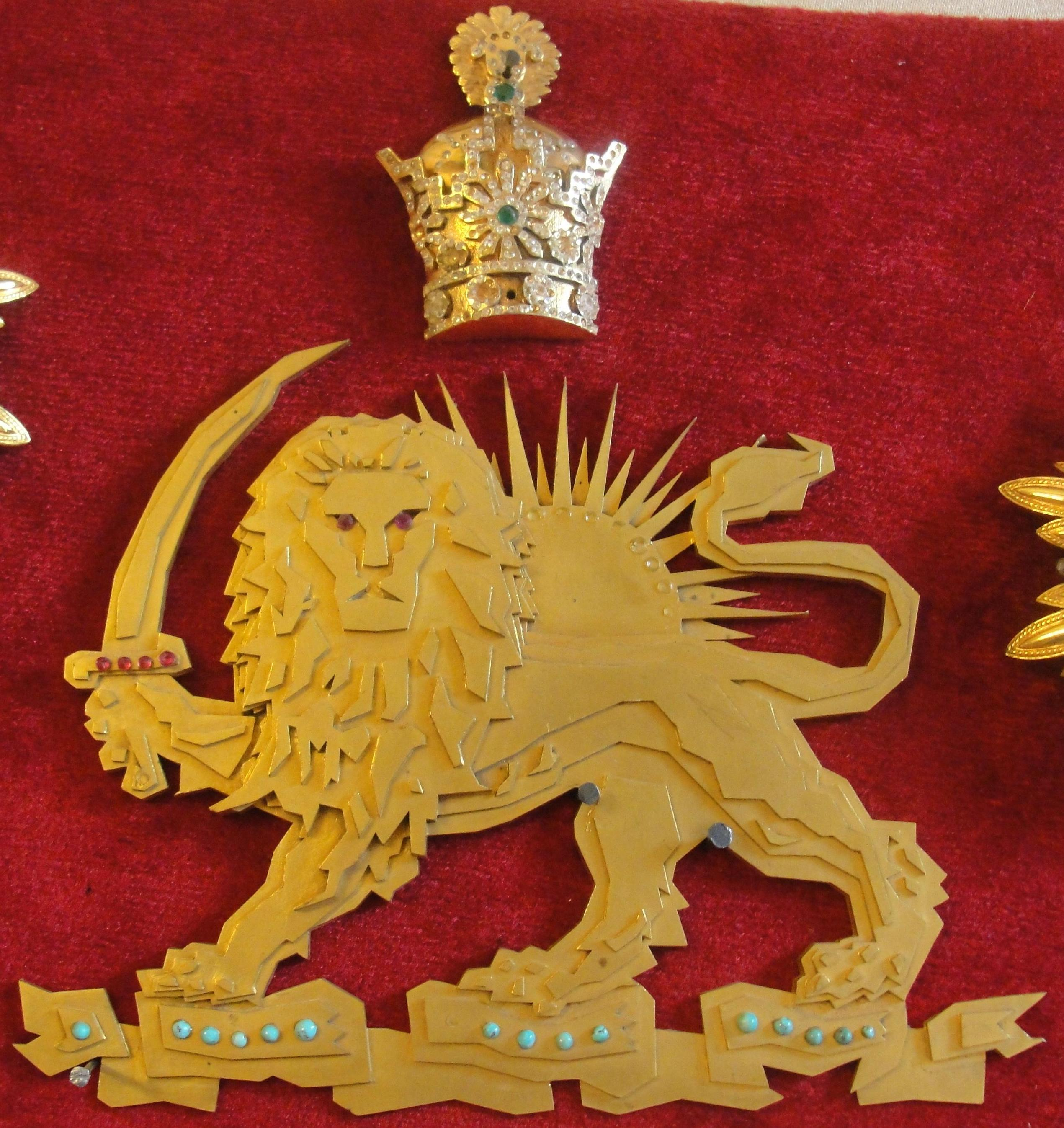 Lion and Sun with Pahlavi Crown - Sahebgharaniye Palace - Niavaran Palace Complex